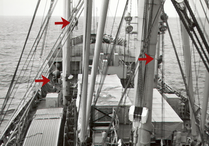 Location: USNS Southern Cross at sea. Date: circa 1981-1983 Photographer: Randy C. Bunney The ship's bosun, an able seaman (AB) day worker, and a watchstander AB are seen here working aloft to maintain cargo rigging. The seamen are seated in bosun's chairs, each of which has a bucket of grease attached. The seamen use the grease to "slush" the wire ropes in the freighter's running tackle to help protect from corrosion. The grease also facilitates smooth operation of the wire rope as it passes through blocks and deck winches.